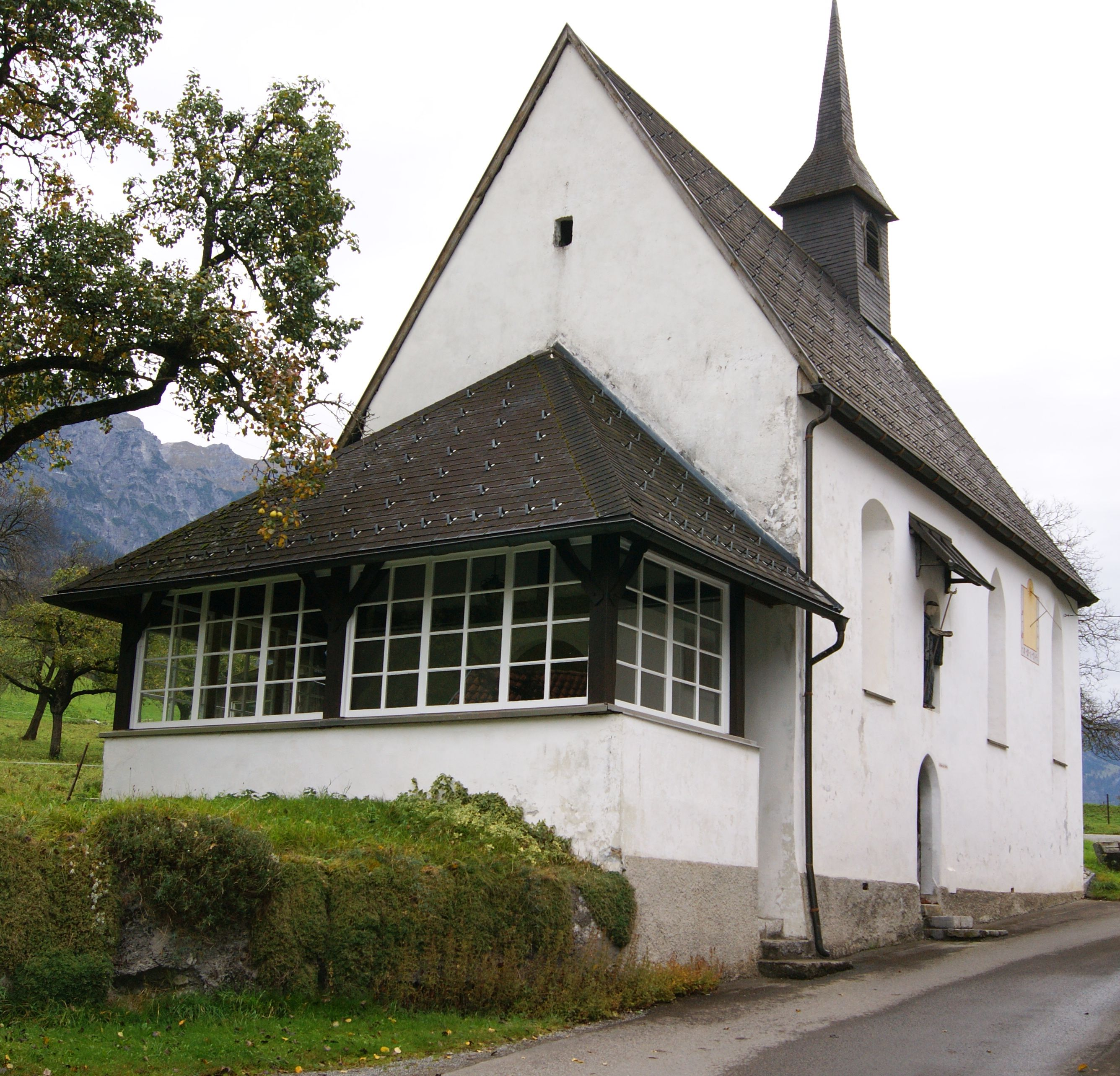 Church of St. Leonhard in St. Leonhard between Bings and Oberradin, Bludenz, Vorarlberg, Austria.